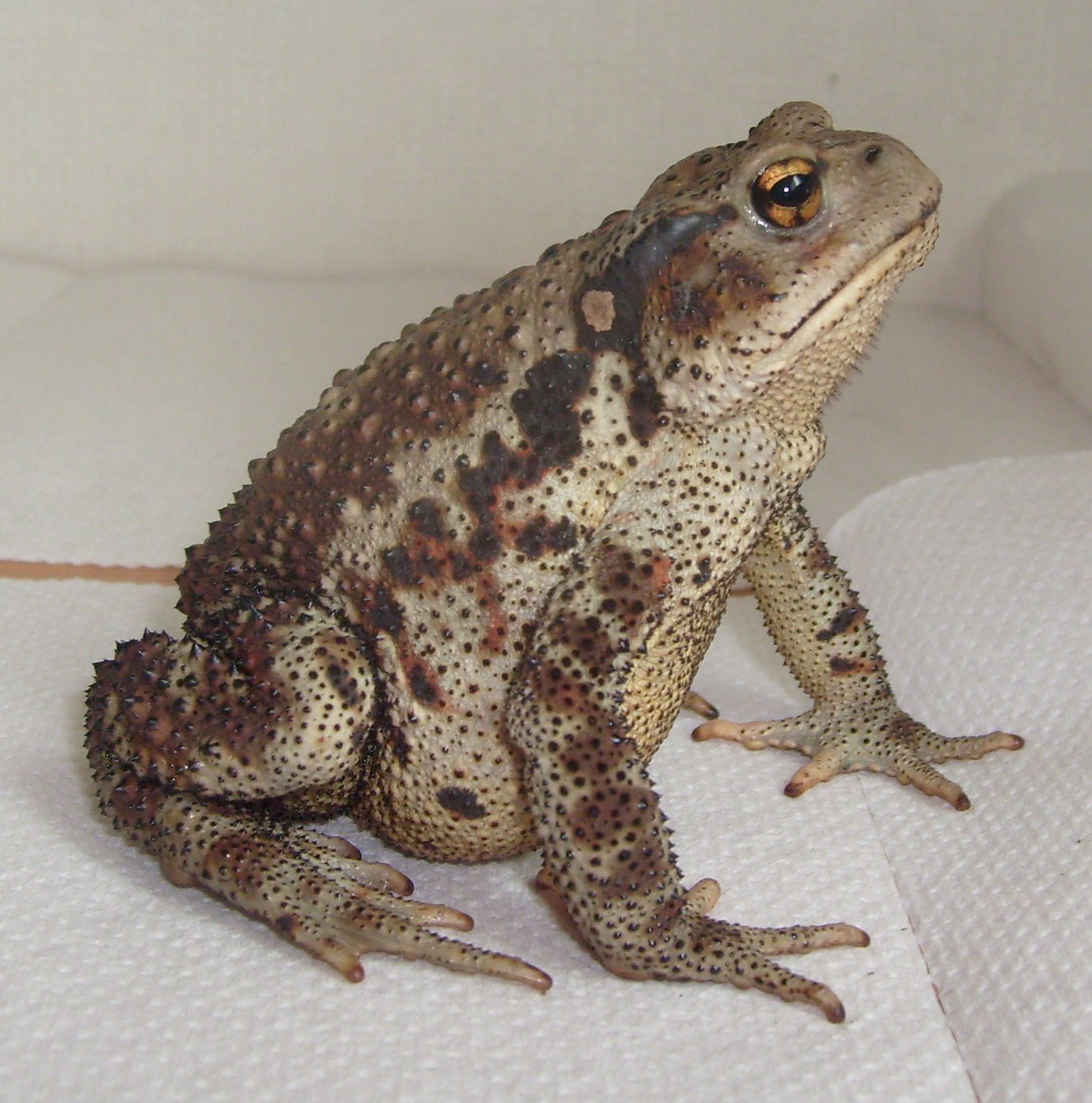 Profile view of an adult Bufo gargarizans, the Asiatic toad. Specimen collected on mountainside in Miryang, South Korea.